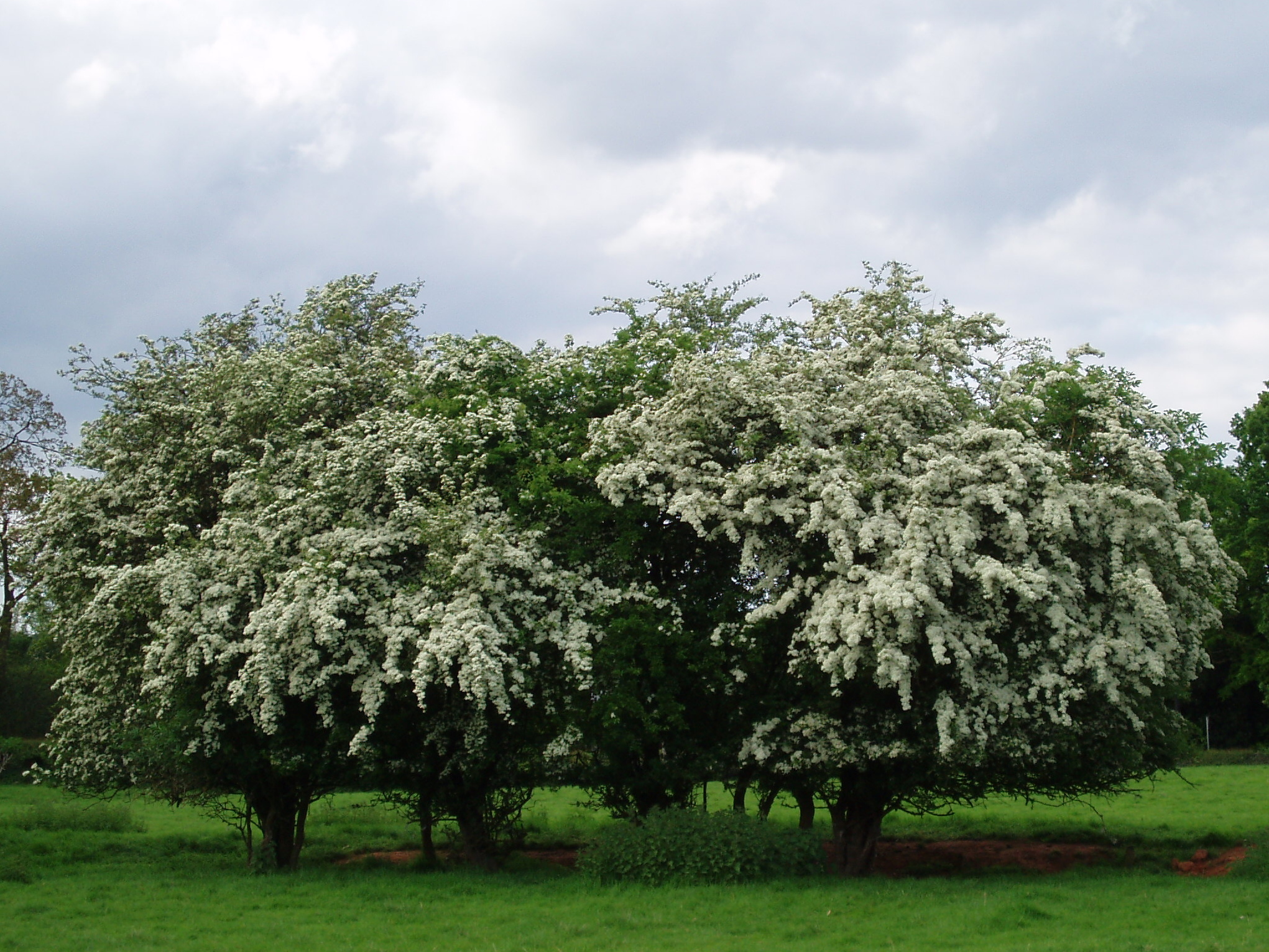 Hawthorn (Crataegus sp.) blossom, Pikers Lane, somewhere in the Allesley Village and Parish, United Kingdom. – We don't often see it as thick as this.